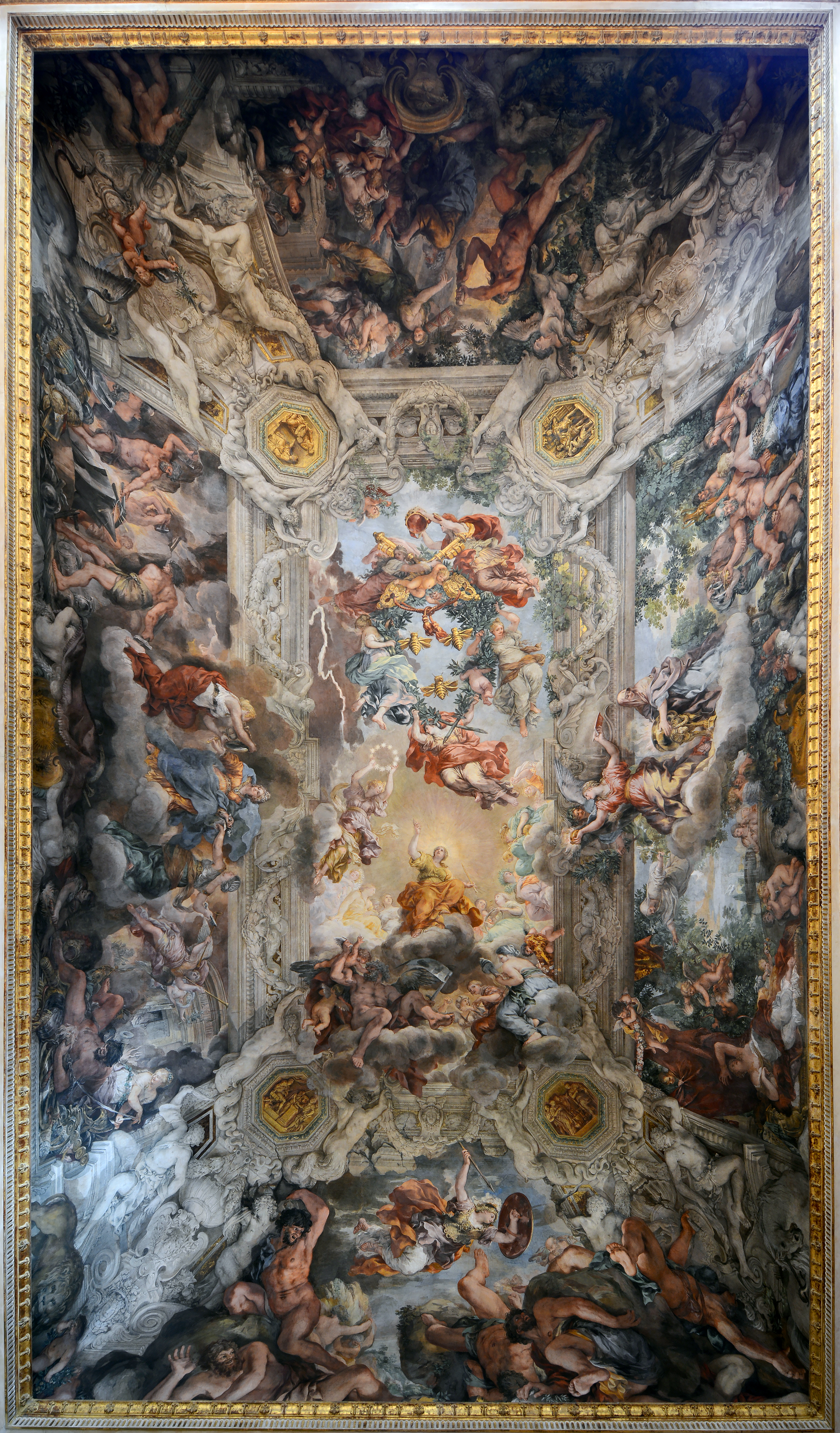 Allegory of Divine Providence and Barberini Power (Cortona) in Palazzo Barberini (Roma)